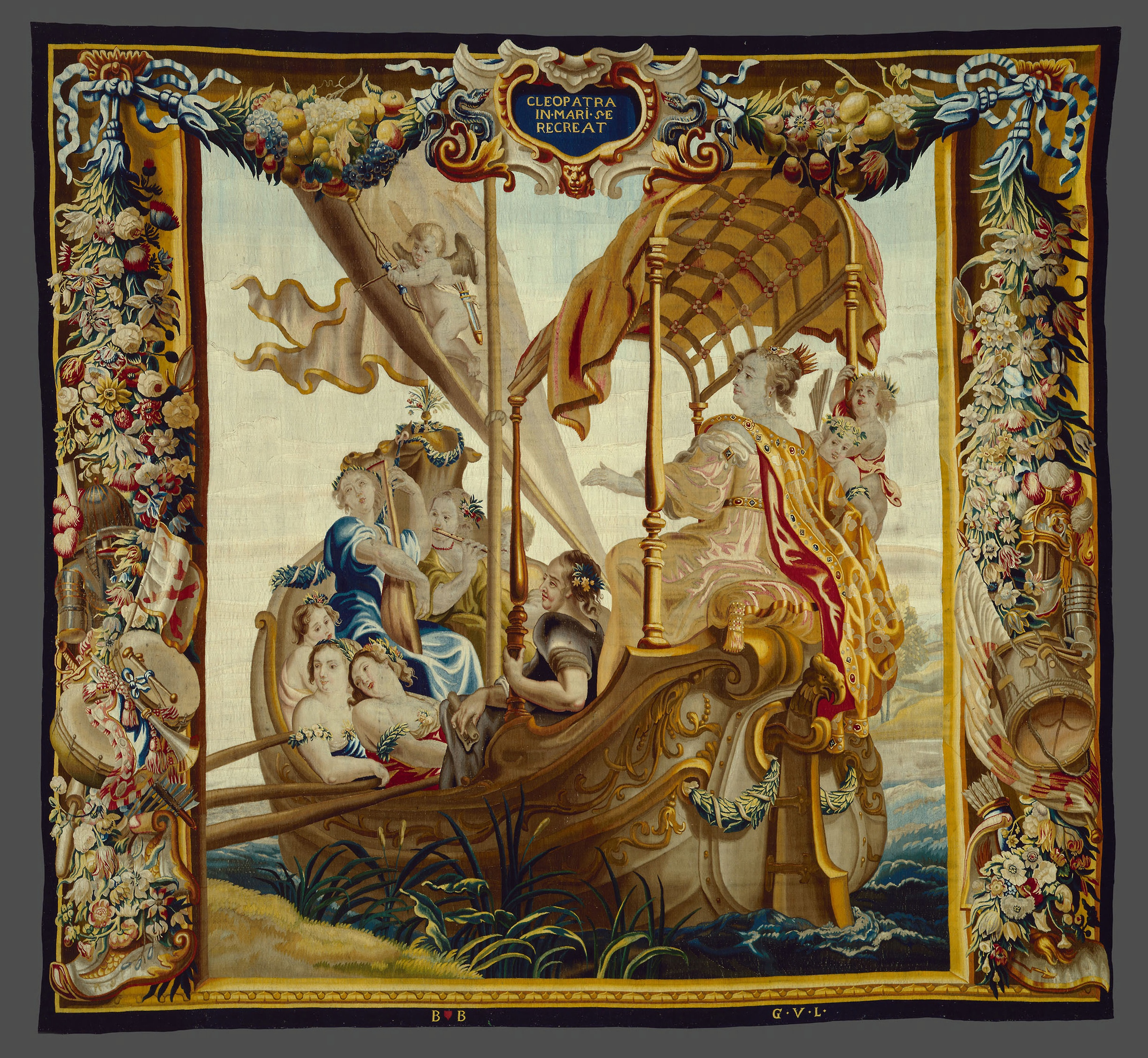 Cleopatra Enjoys Herself at Sea from the Story of Caesar and Cleopatra by Justus van Egmont